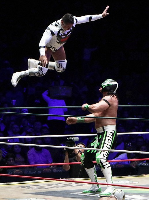 Viernes 30 de noviembre de 2018Arena México, ceremonia de develación de la placa conmemorativa por el reciente decreto de la Lucha Libre como Patrimonio Cultural Intangible de la Ciudad de México, estuvieron presentes autoridades del Consejo Mundial de Lucha Libre, y autoridades del gobierno de la CMDX, entre ellos Gabriela López Torres, coordinadora de Patrimonio Histórico Artístico y Cultural de la Secretaría de Cultura de la CDMX, además de invitados especiales.Fotografía: Tania Victoria/ Secretaría de Cultura CDMX